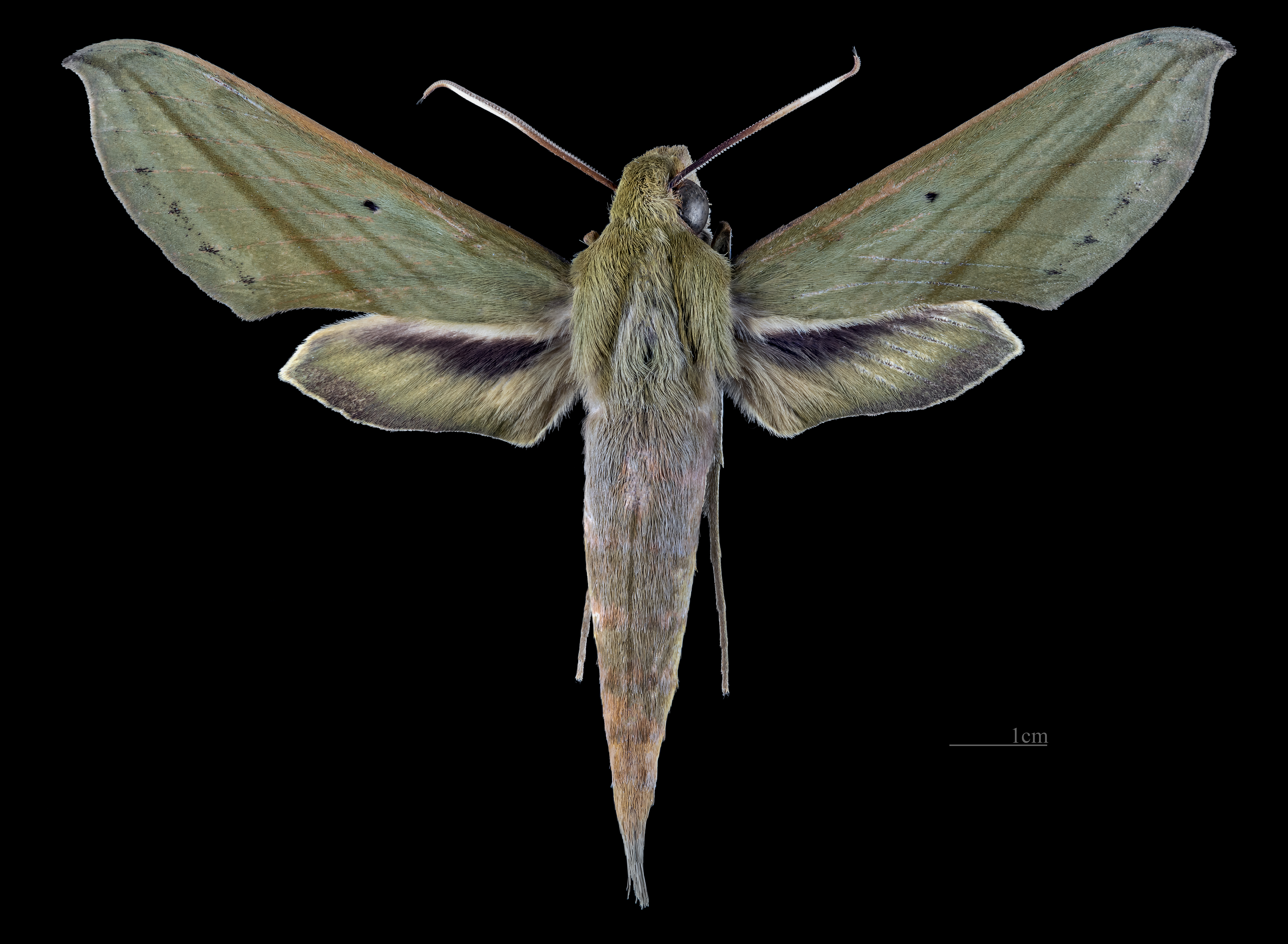 Xylophanes elara - Dorsal side Collection of the Mathematician Laurent Schwartz